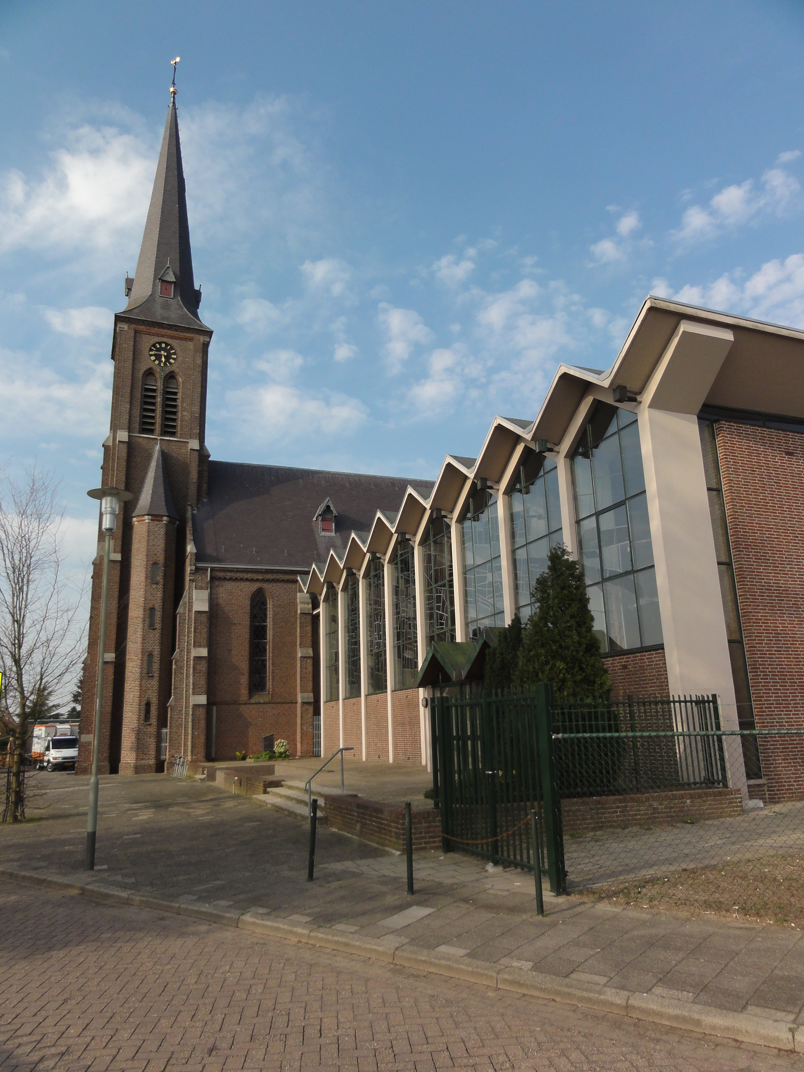 Venray Leunen